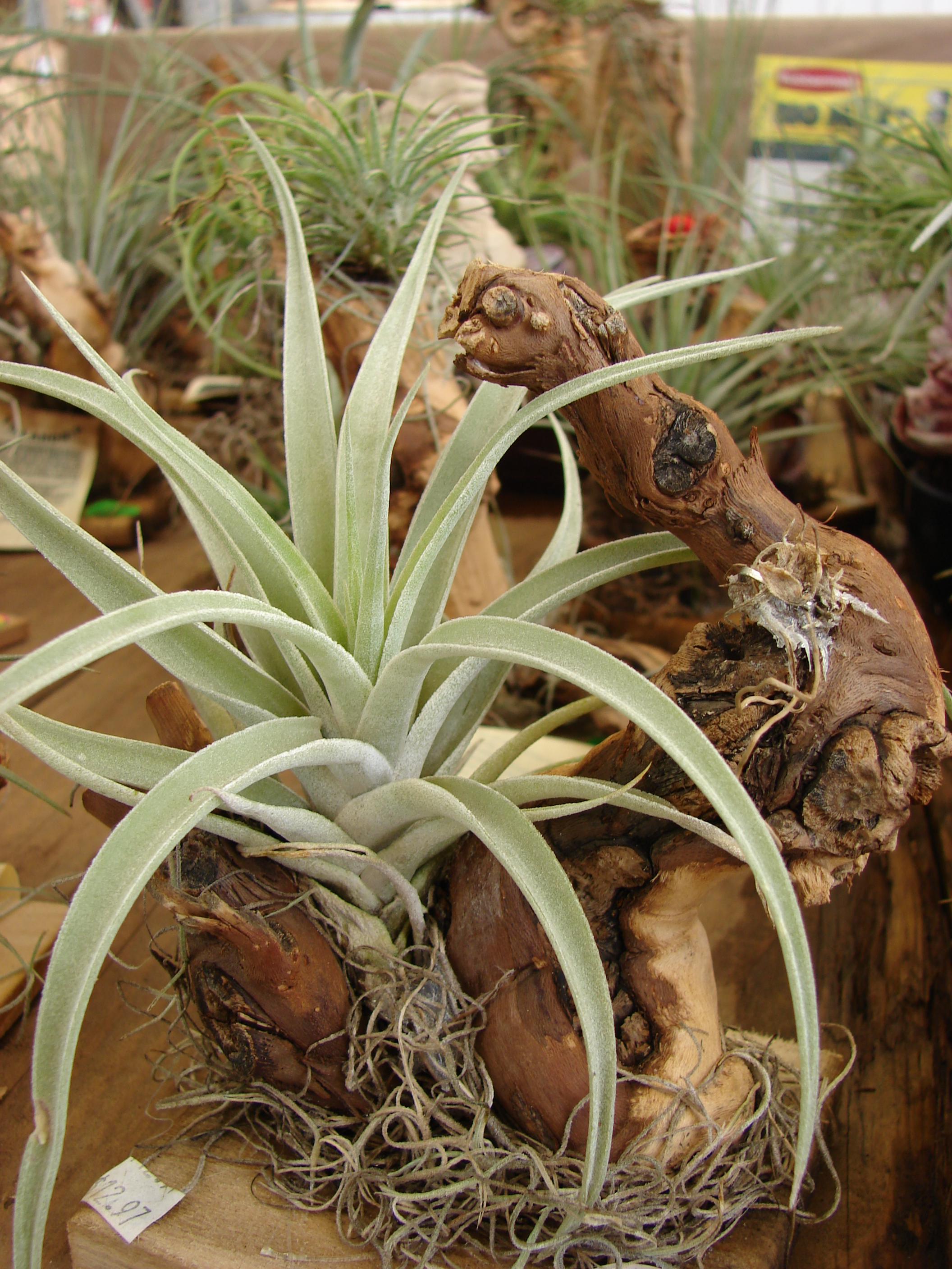 Tillandsia sp. (habit). Location: Maui, Home Depot Nursery Kahului